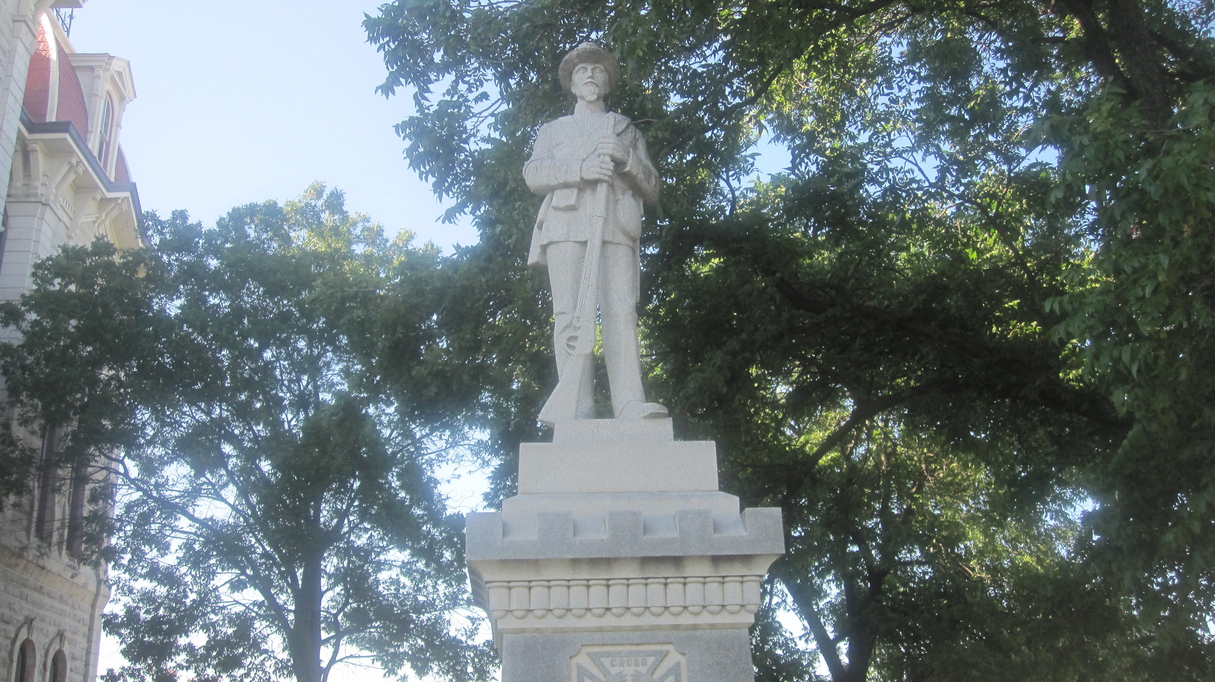 I took photo at Weatherford, TX, with Canon camera.